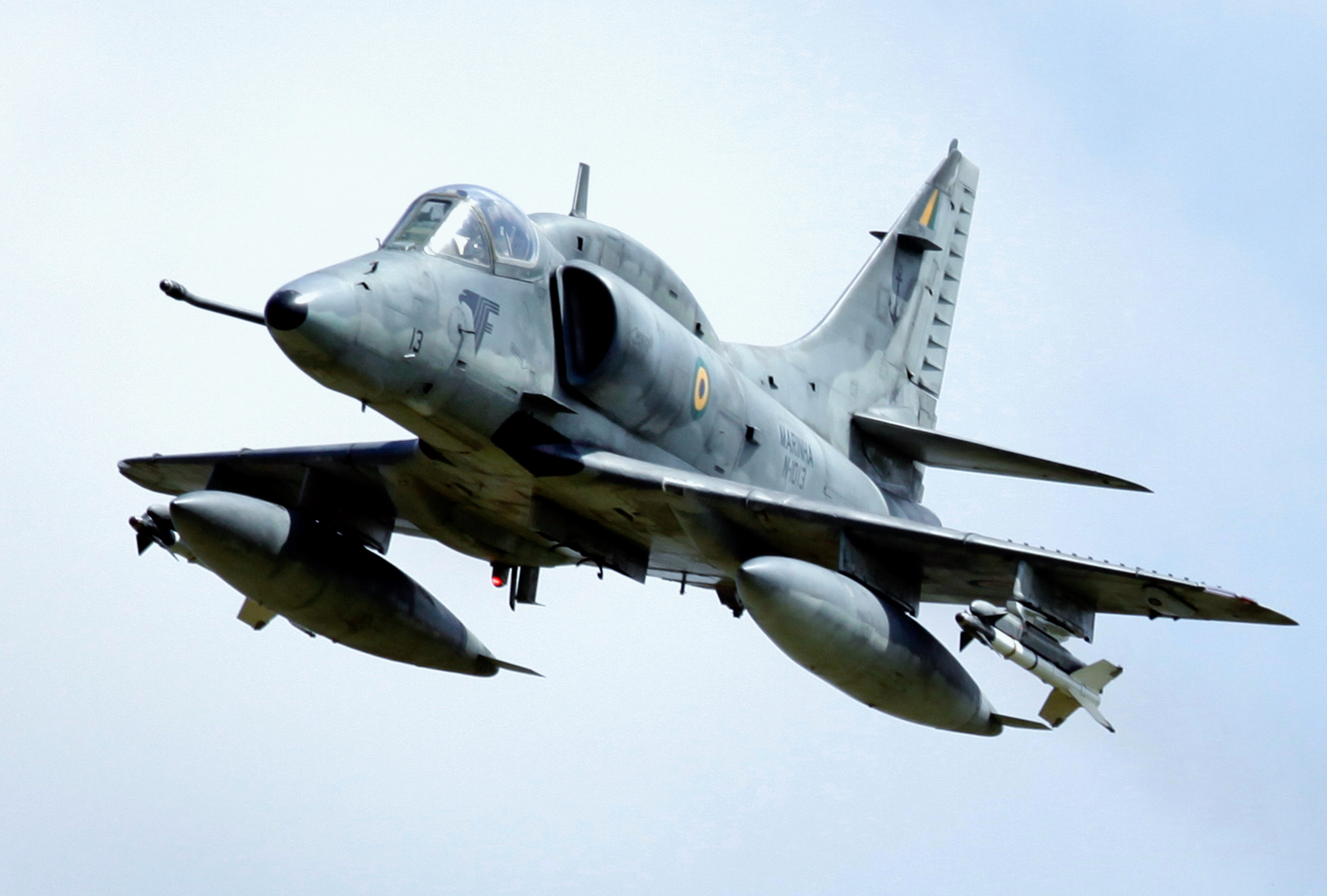 Brazilian Navy A-4